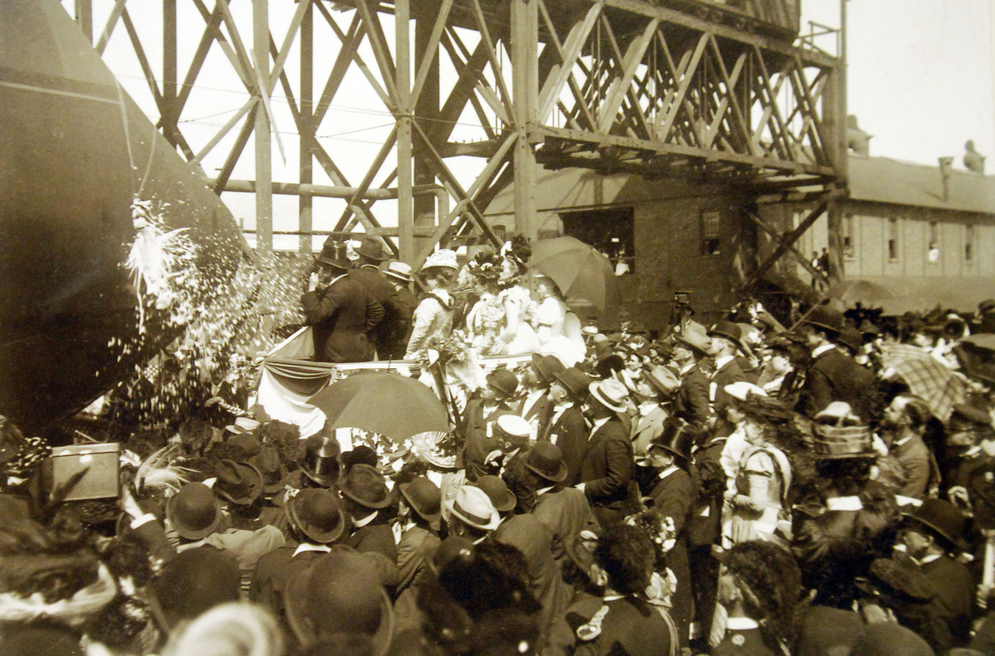 Lot-5524-3: USS Illinois (BB 7) launching and christening by Ms. Leiter, Newport News, Virginia, October 4, 1898. Photograph by Rusk and Shaw. Courtesy of the Library of Congress.